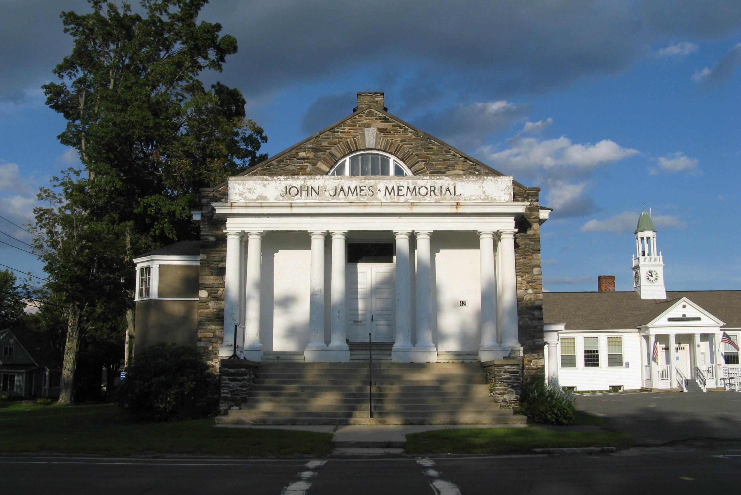 John James Memorial Library, Goshen Massachusetts